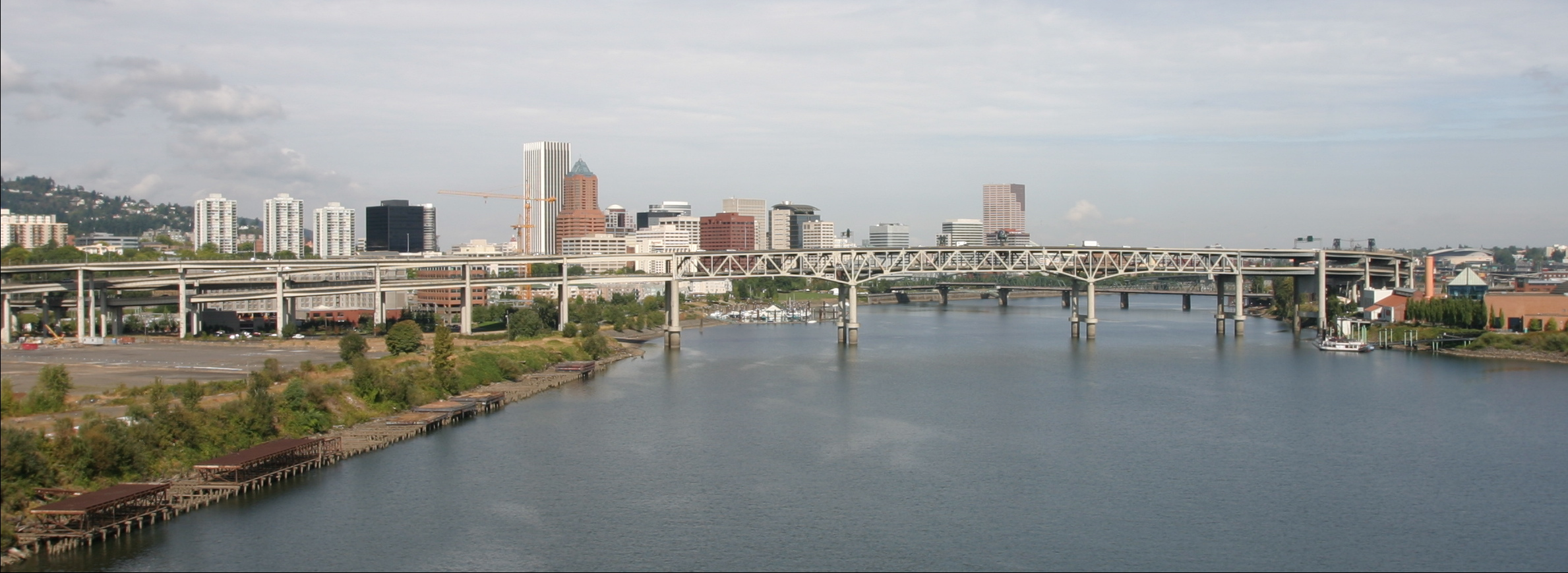 The Marquam Bridge in Portland, Oregon. Seen from the south atop the Ross Island Bridge, before construction of the Tilikum Crossing bridge (which now stands between the Ross Island and Marquam Bridges).